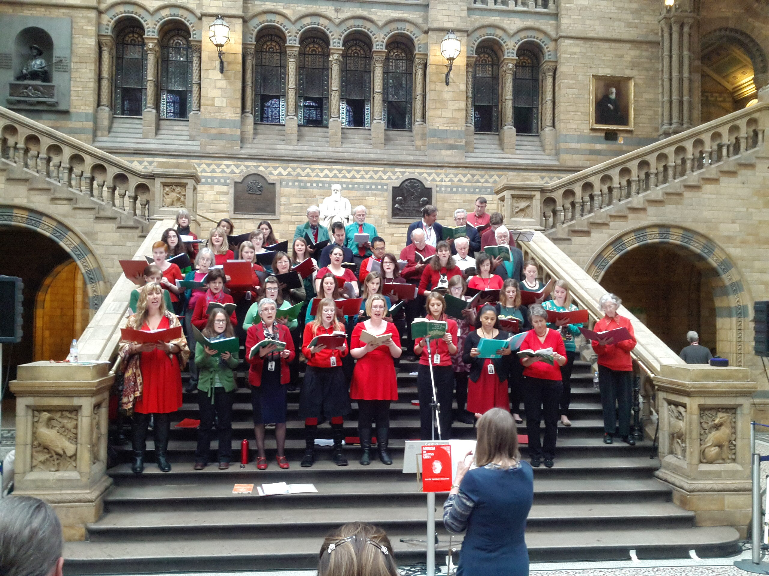 A choir of Natural History Museum, Science Museum and Victoria and Albert Museum staff members sing carols in the central hall of the Natural History Museum